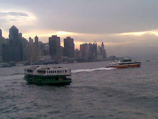 Star Ferry and New World First Ferry